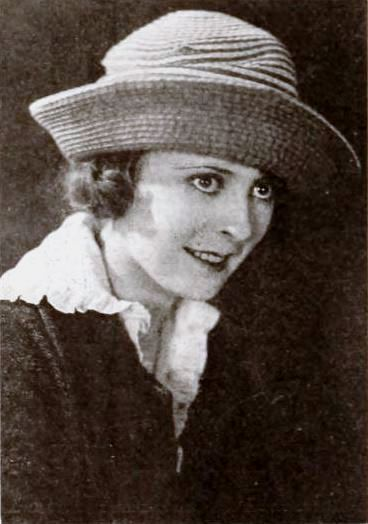 Actress Priscilla Bonner, on page 60 of the May 8, 1920 Exhibitors Herald. The caption states that she had the apparently uncredited role of Agnes in The Great Accident (1920).